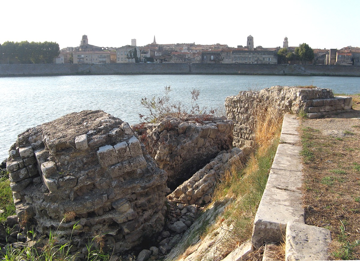 Ruins of the roman bridge in Arles